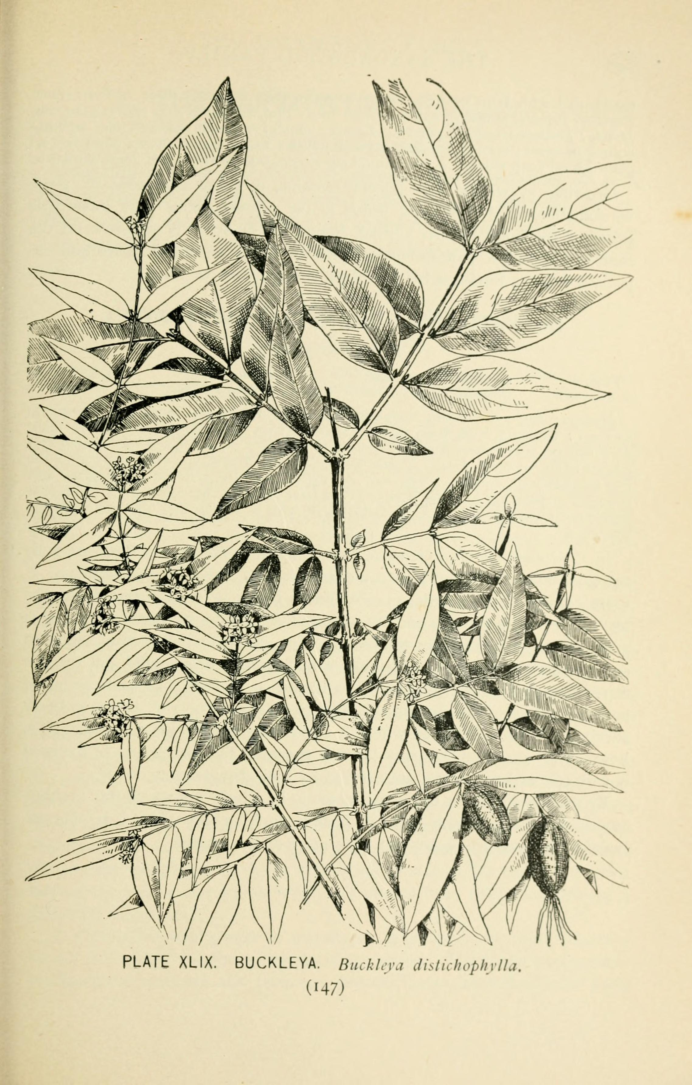 Southern wild flowers and trees, together with shrubs, vines and various forms of growth found through the mountains, the middle district and the low country of the South, by Alice Lounsberry, with plates, vignettes and diagrams by Mrs. E. Rowan, with an introduction by C. D. Beadle.